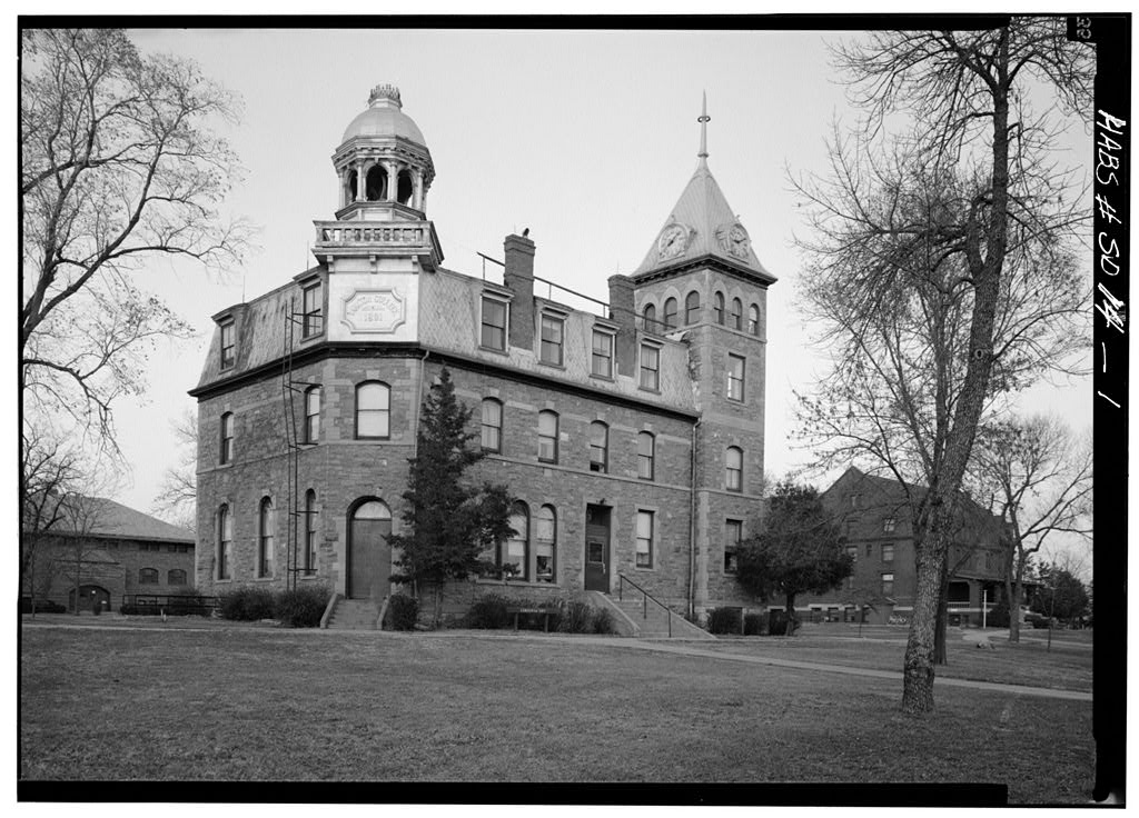 Title: Yankton College Conservatory, Yankton College Campus, Yankton, Yankton County, SD Creator(s): Historic American Buildings Survey, creator Related Names: Cary, Brian , transmitter Boucher, Jack , photographer McCown, Susan , historian Date Created/Published: Documentation compiled after 1933 Medium: Photo(s): 2 Color Transparencies: 1 Data Page(s): 5 Photo Caption Page(s): 2 Reproduction Number: --- Rights Advisory: No known restrictions on images made by the U.S. Government; images copied from other sources may be restricted. ( Call Number: HABS SD,68-YANK,2- Repository: Library of Congress Prints and Photographs Division Washington, D.C. 20540 USA Notes: Significance: The college was founded during the Territory's growing educational movement started by church groups and local citizenry determined to bring political, social and economic stability to the frontier. The church groups were primarily Congregationalist, and a Congregationalist minister, Dr. Joseph Ward, was largely responsible for the establishment of the college. Survey number: HABS SD-14 Building/structure dates: 1883 Initial Construction National Register of Historic Places NRIS Number: 75001724 Subjects: colleges & universities music halls stone buildings religious groups music education Place: South Dakota -- Yankton County -- Yankton Latitude/Longitude: 42.87111 ,-97.39694 Collections: Historic American Buildings Survey/Historic American Engineering Record/Historic American Landscapes Survey Part of: Historic American Buildings Survey (Library of Congress) Bookmark This Record